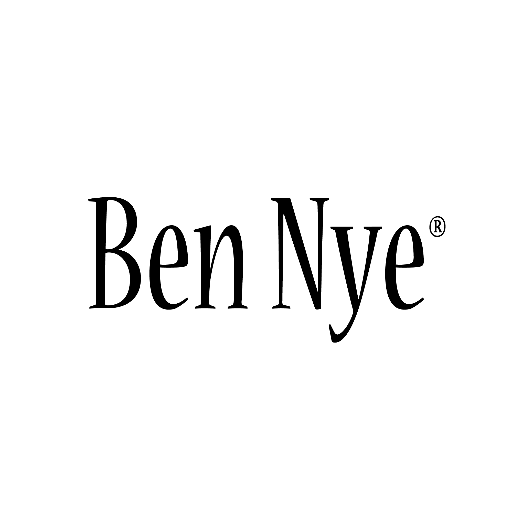 This is the logo of the Ben Nye Makeup company, used from 2014 until present.